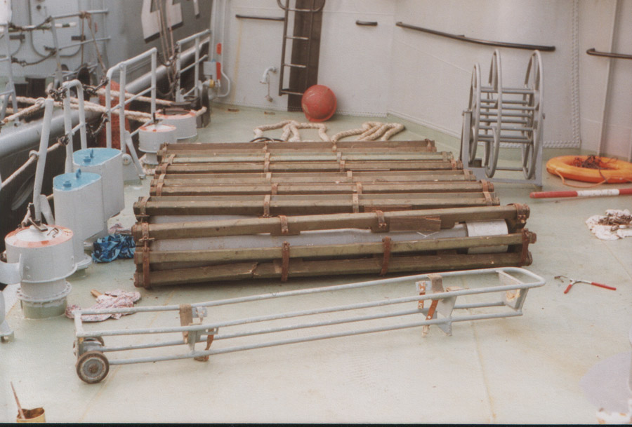 Rocket ammunition for the RBU 6000 ASW launcher of the former East-German navy ship "Wismar" is stacked on the deck while the ship is beeing disarmed.